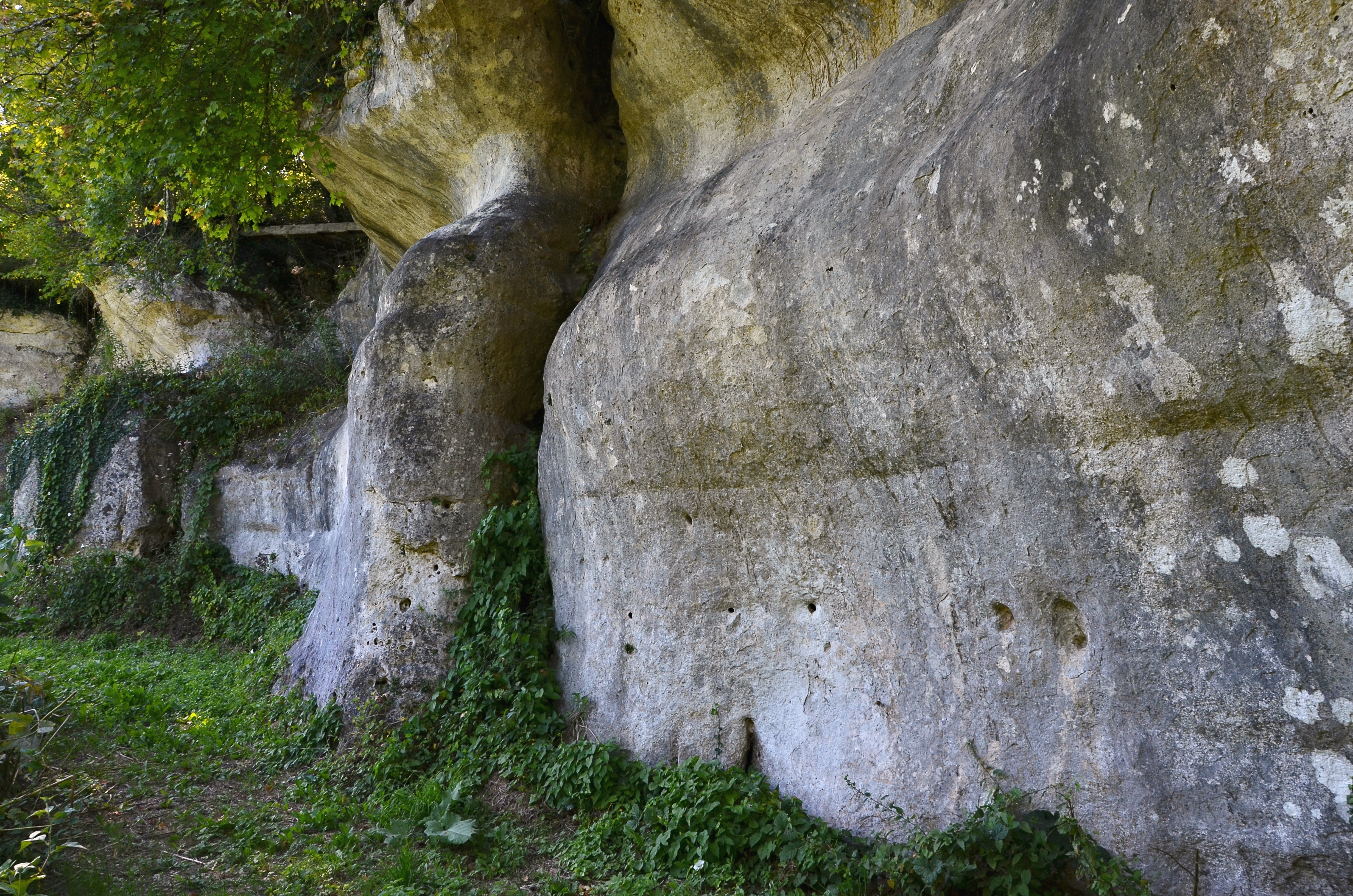 Eroded limestone cretaceous cliff, La Brousse, Sers, Charente, France.